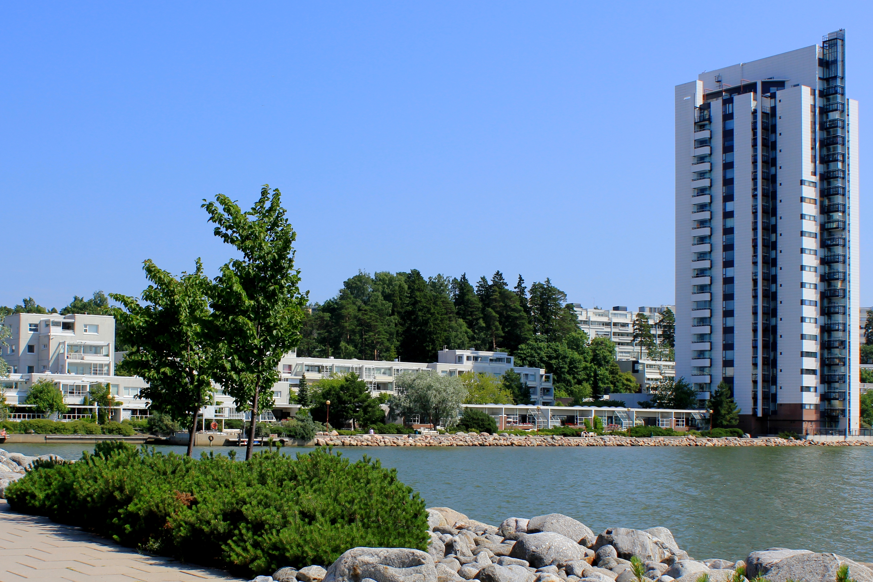 High rise apartment building in Kivenlahti, Espoo, Finland.